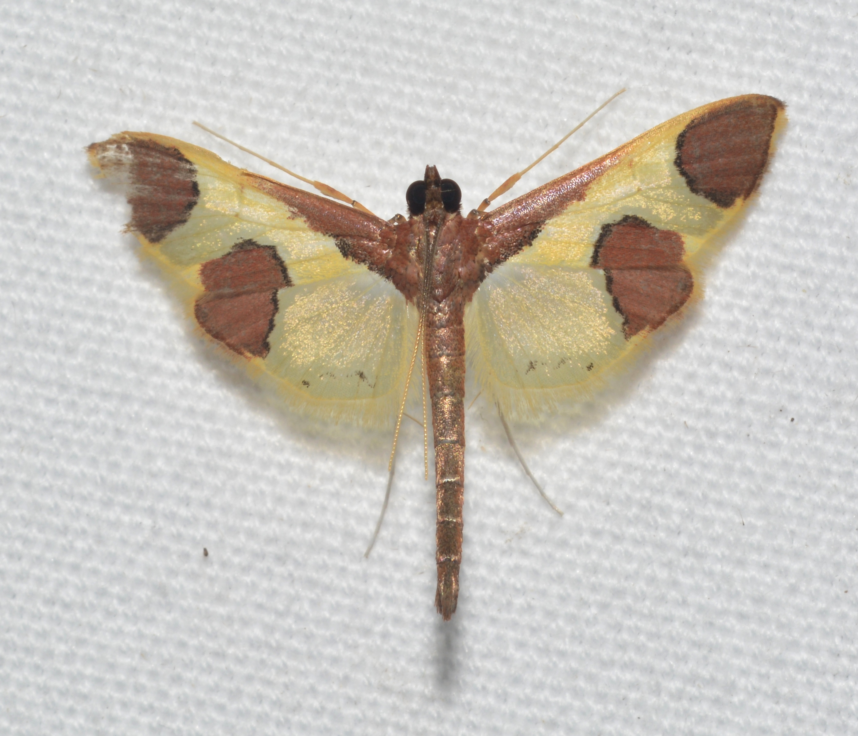 Costa Rica Rancho Naturalista Photos taken between 2/8/16 and 2/14/16